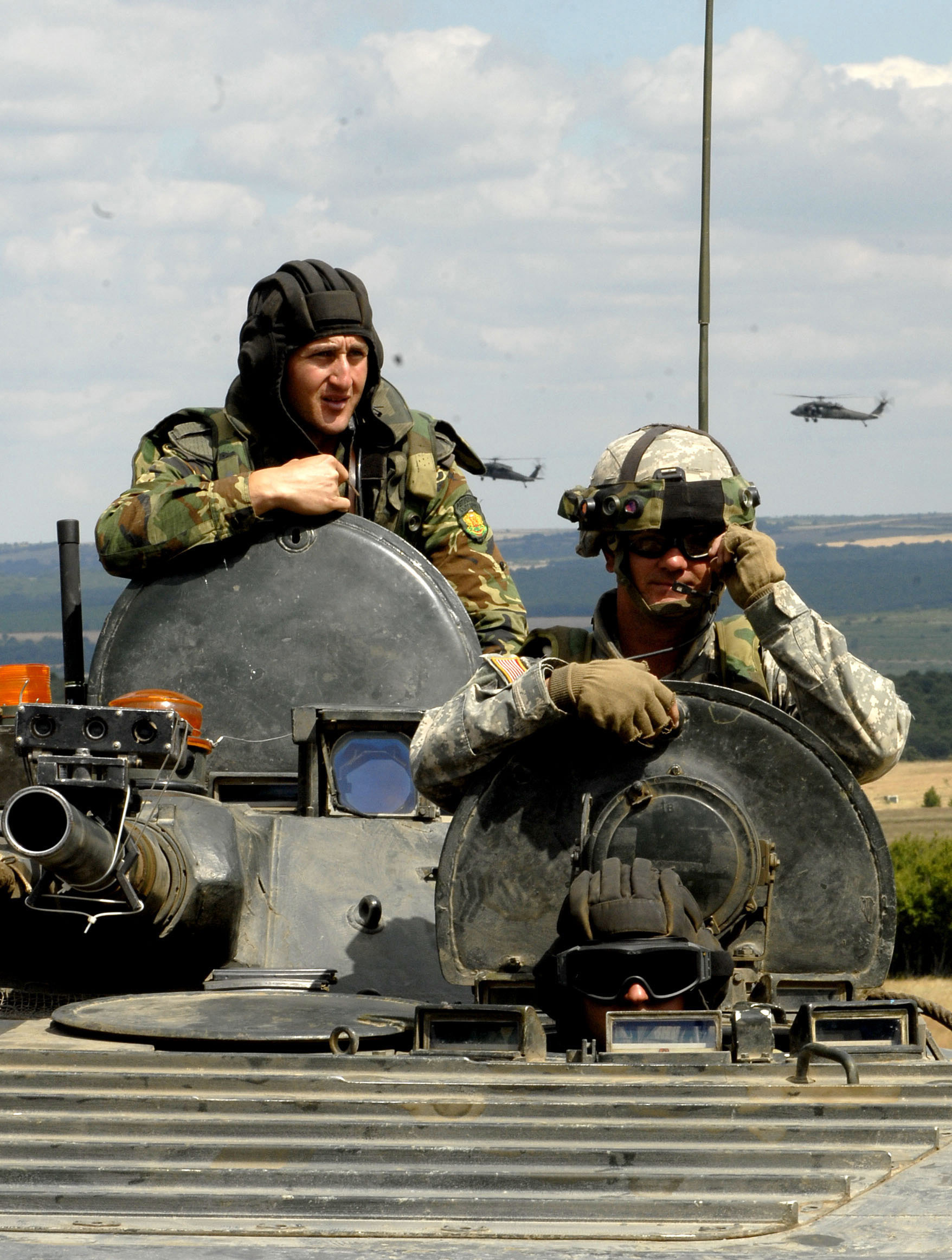 Bulgarian army soldiers man the driver's and gunner's stations while a U.S. Army soldier mans the commander's station of a Bulgarian BMP-1 IFV during military operations in urban terrain training at the Novo Selo Training Area in Bulgaria. The training is part of the trilateral training exercise Immediate Response 06, which involves soldiers from Bulgaria, Romania and the United States. Two UH-60 Black Hawk helicopters are visible in the background.